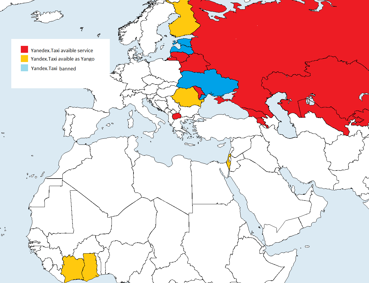 Yandex Taxi available countries